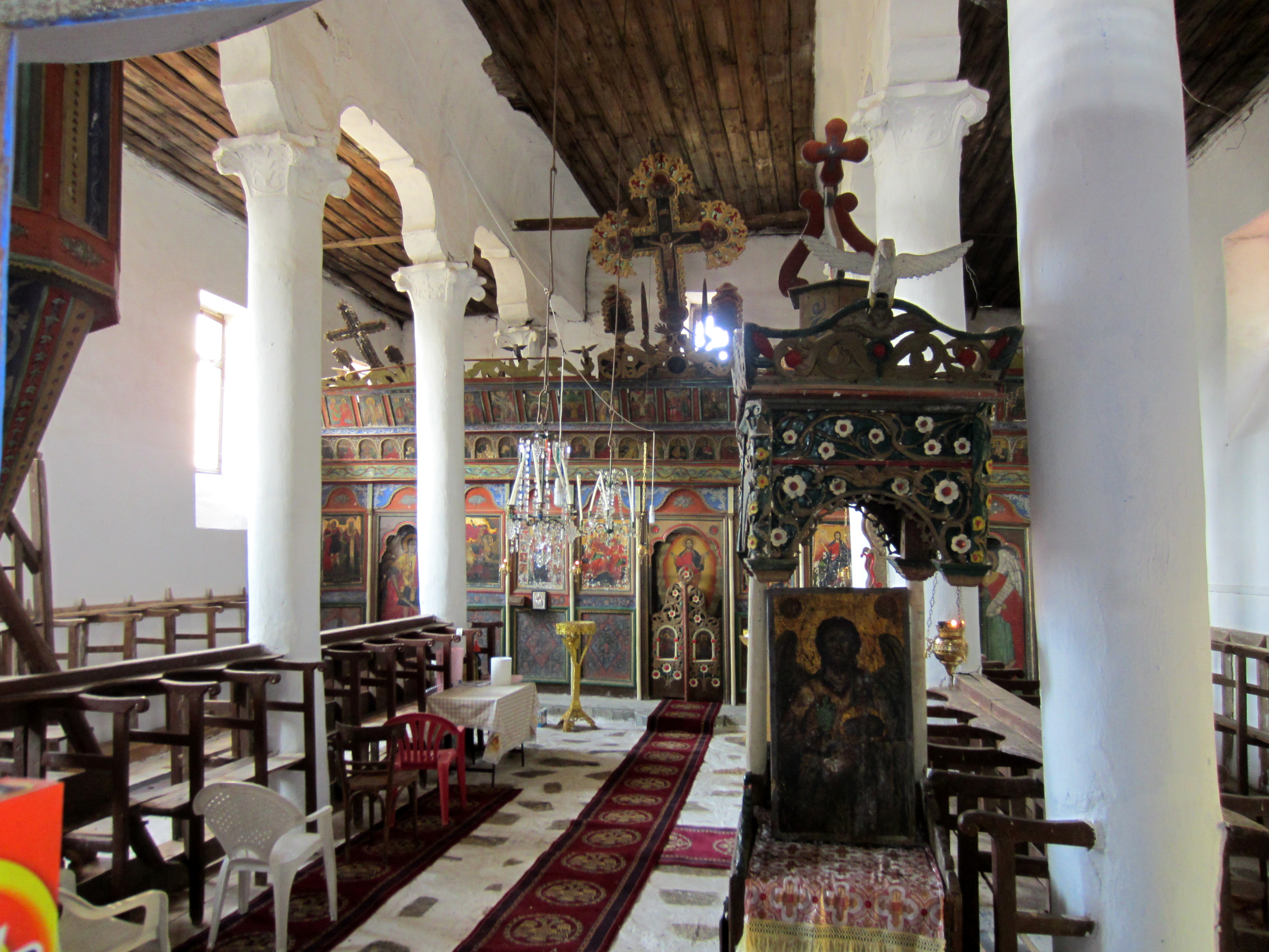 Gorno Drenoveni, Sveta Petka Church, interior, c. 1864